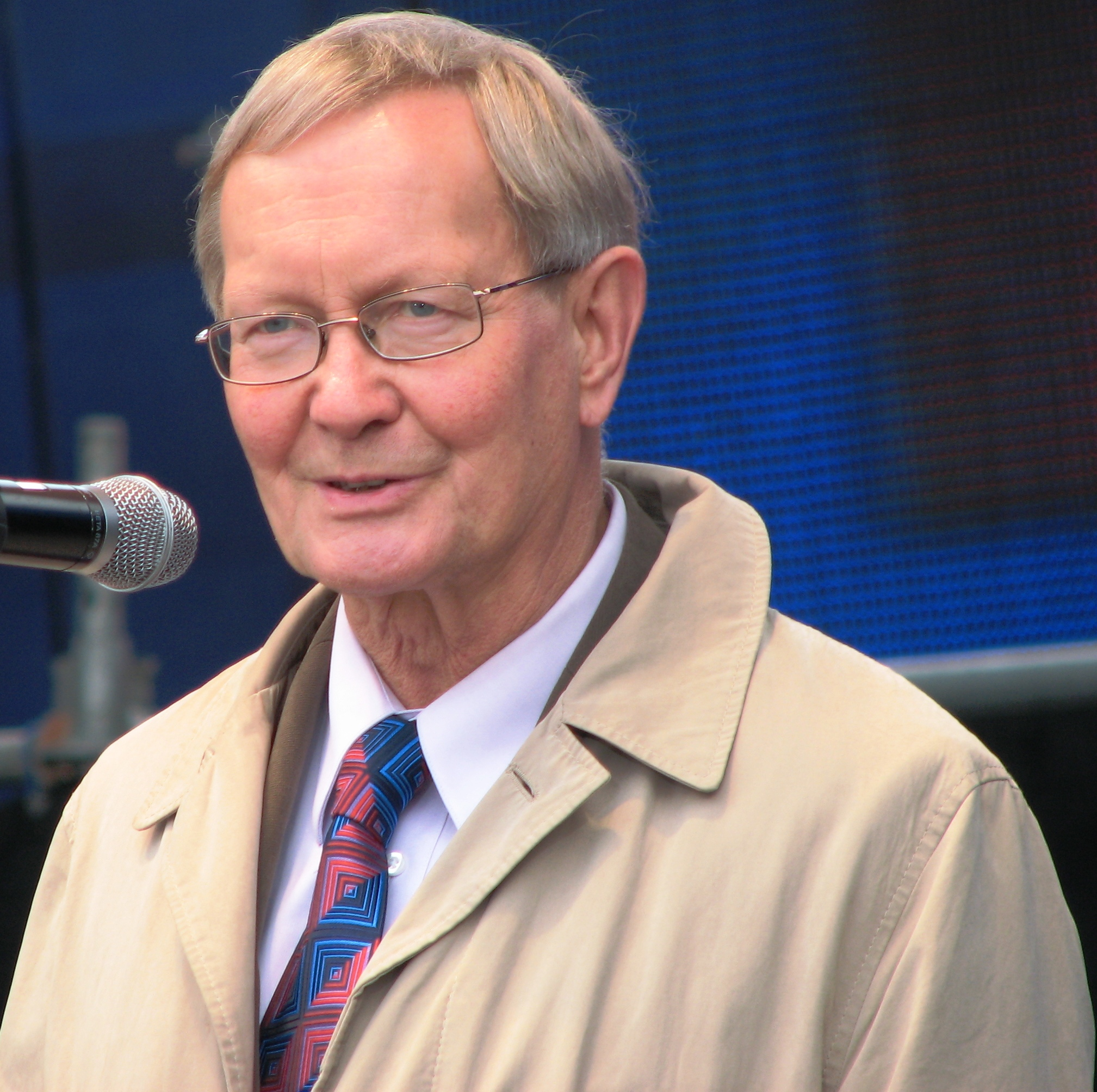 Tunne Kelam in Grand Slam